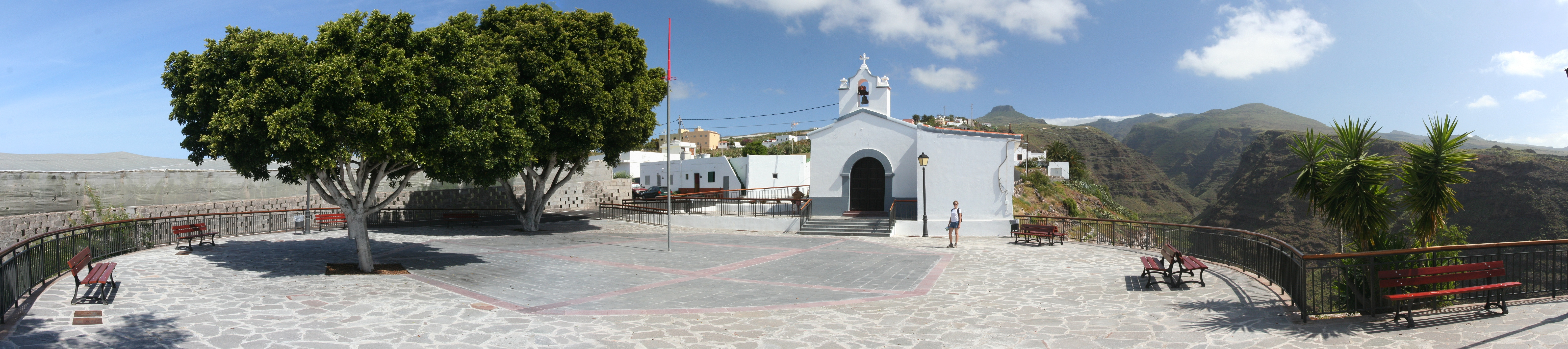 La Dama, Vallehermoso, La Gomera.